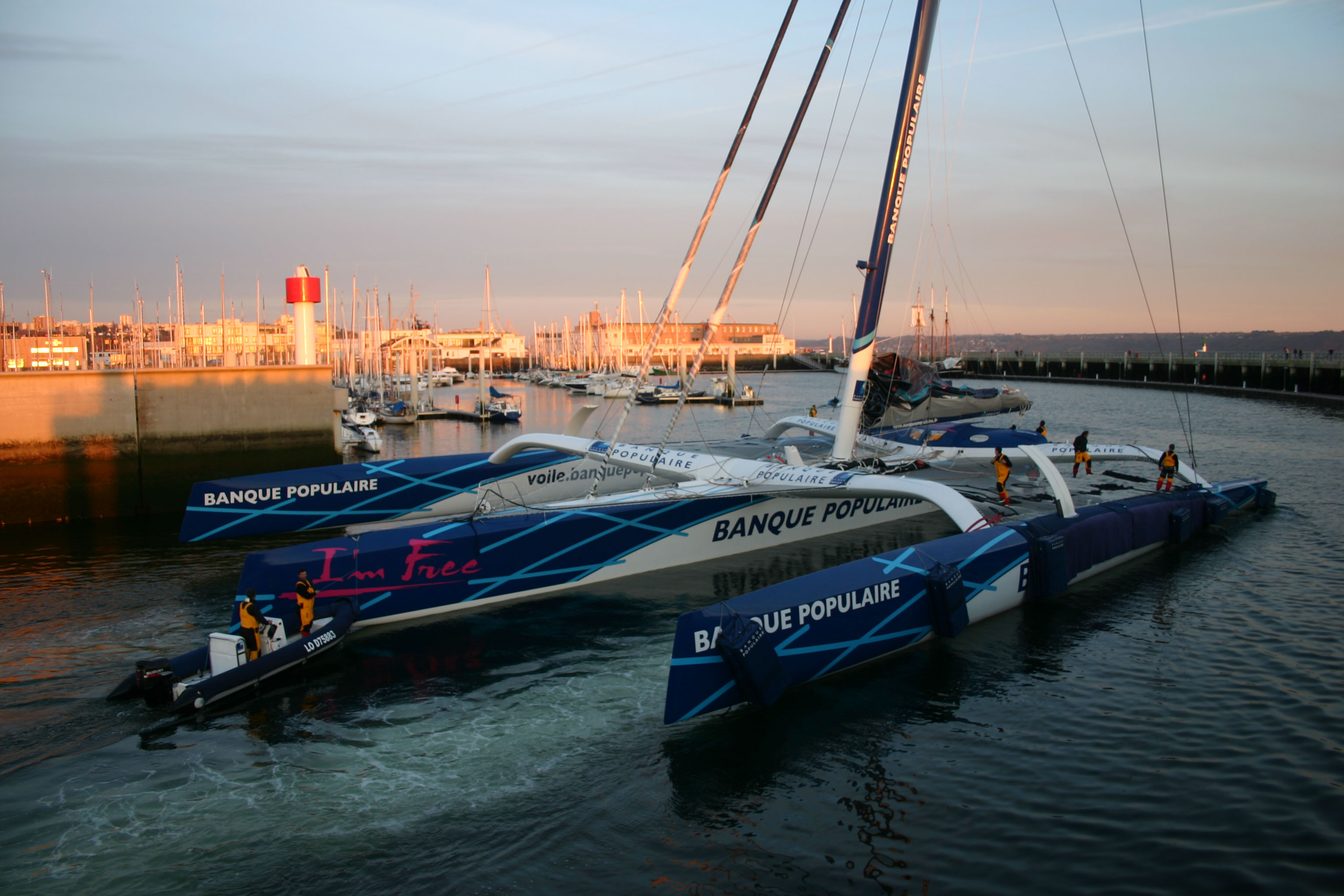 Trimaran sailboat Banque Populaire V in Brest in 2009.